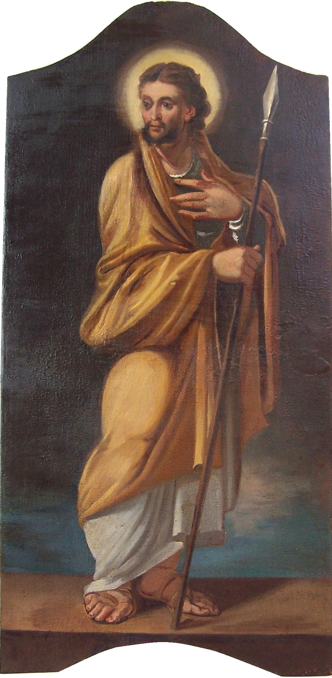 The picture is a Greek Catholic icon depicting apostle Thomas with a spear referring to his martyrdom. The icon was painted in the end of the 18th century as part of the iconostasis of the Greek Catholic Cathedral of Hajdúdorog, Hungary. Thomas' icon is placed on the second tier of the iconostasis, the so called Twelve Apostles tier. This icon is the first painting from the left.